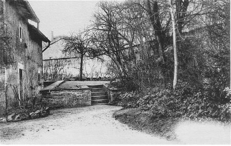 Garden of Joan where she heard St. Michael.